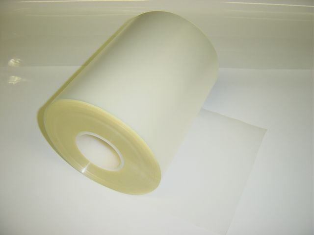 Plastic film